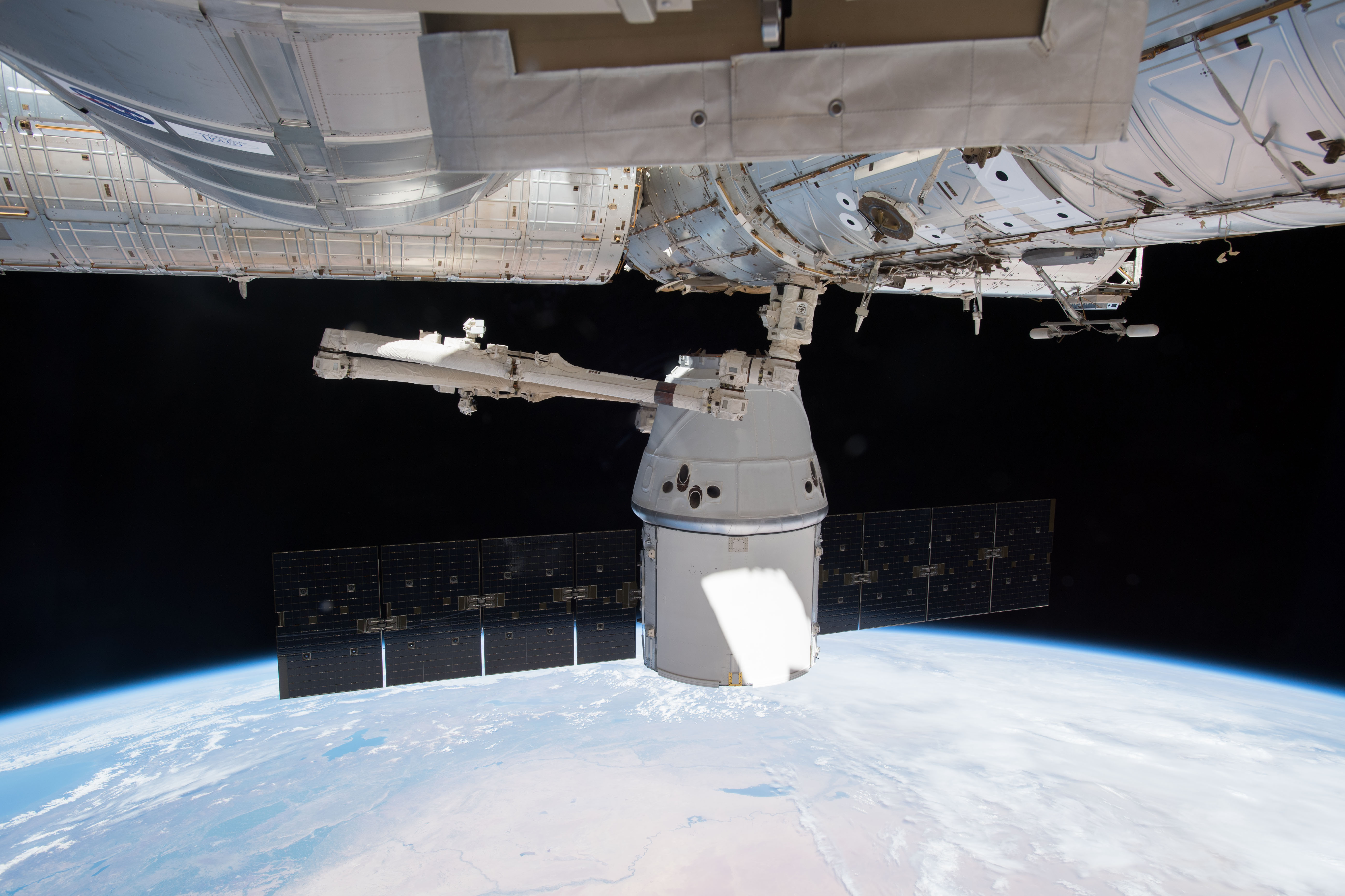 The SpaceX Dragon resupply ship, held firmly in the grip of the Canadarm2 robotic arm, is pictured being remotely maneuvered very slowly by robotics engineers on the ground before it was installed to the Harmony module's Earth-facing port.